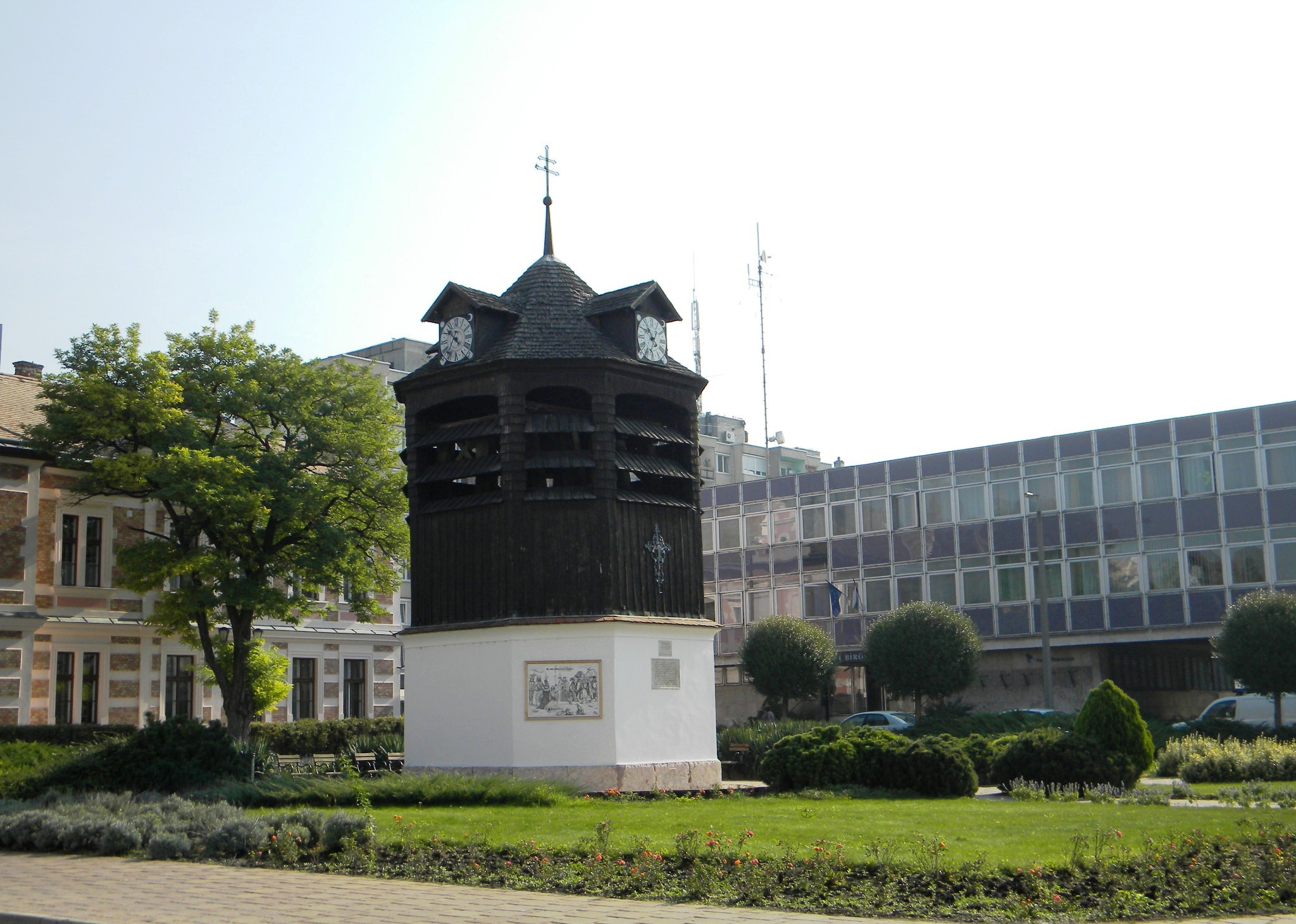 Location: Hungary, Tata